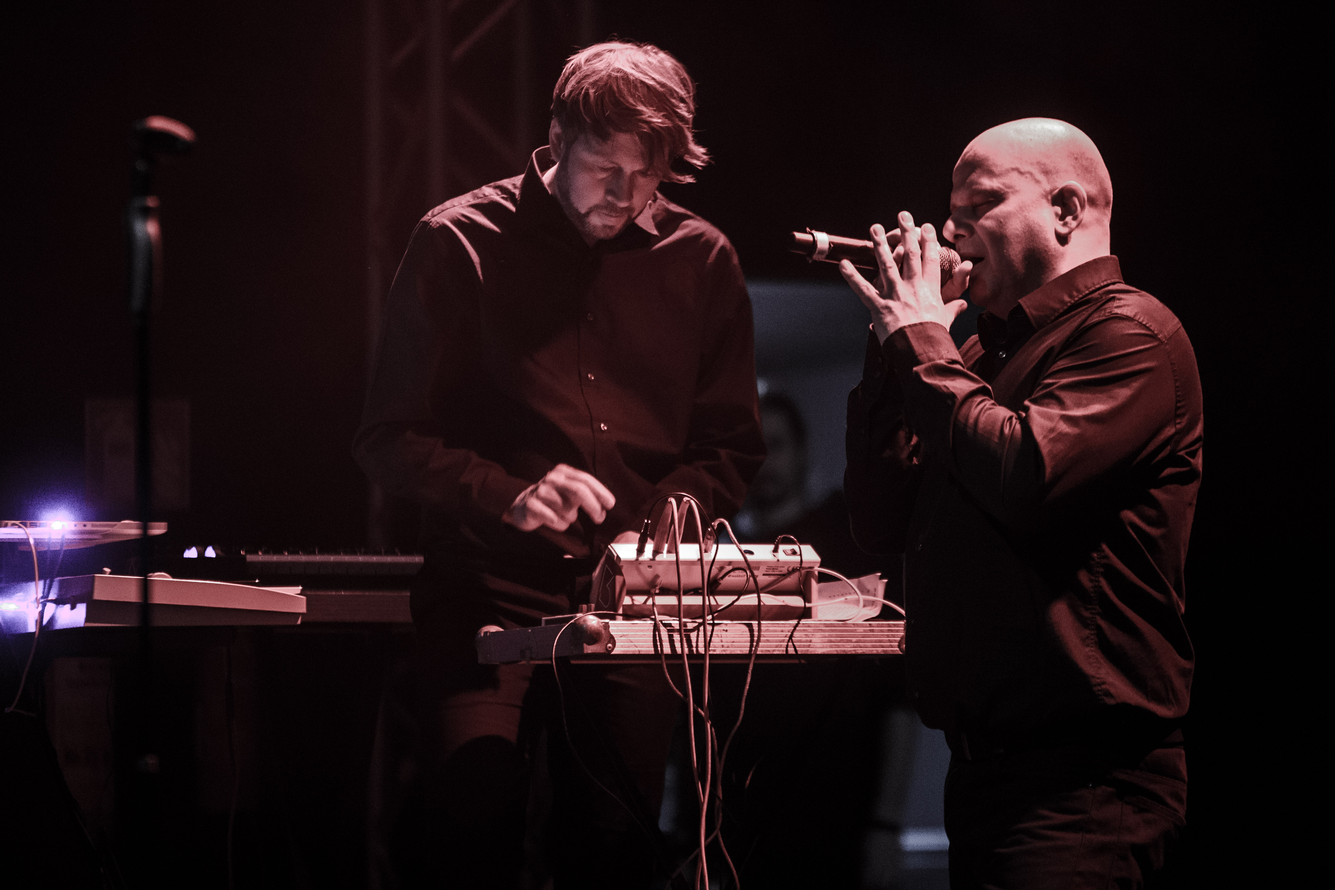 Beborn Beton, E-Tropolis Festival 2016, Oberhausen Turbinenhalle Festivalsommer This photo was created with the support of donations to Wikimedia Deutschland in the context of the CPB project "Festival Summer".